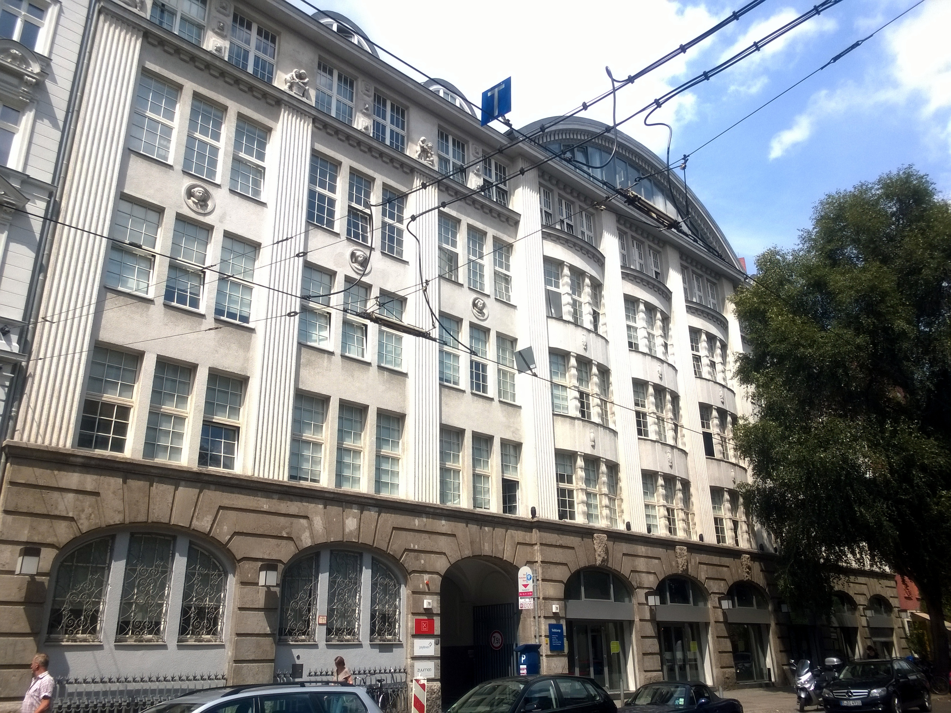 Berlin-Prenzlauer Berg Pappelallee Suhrkamp-Gebäude